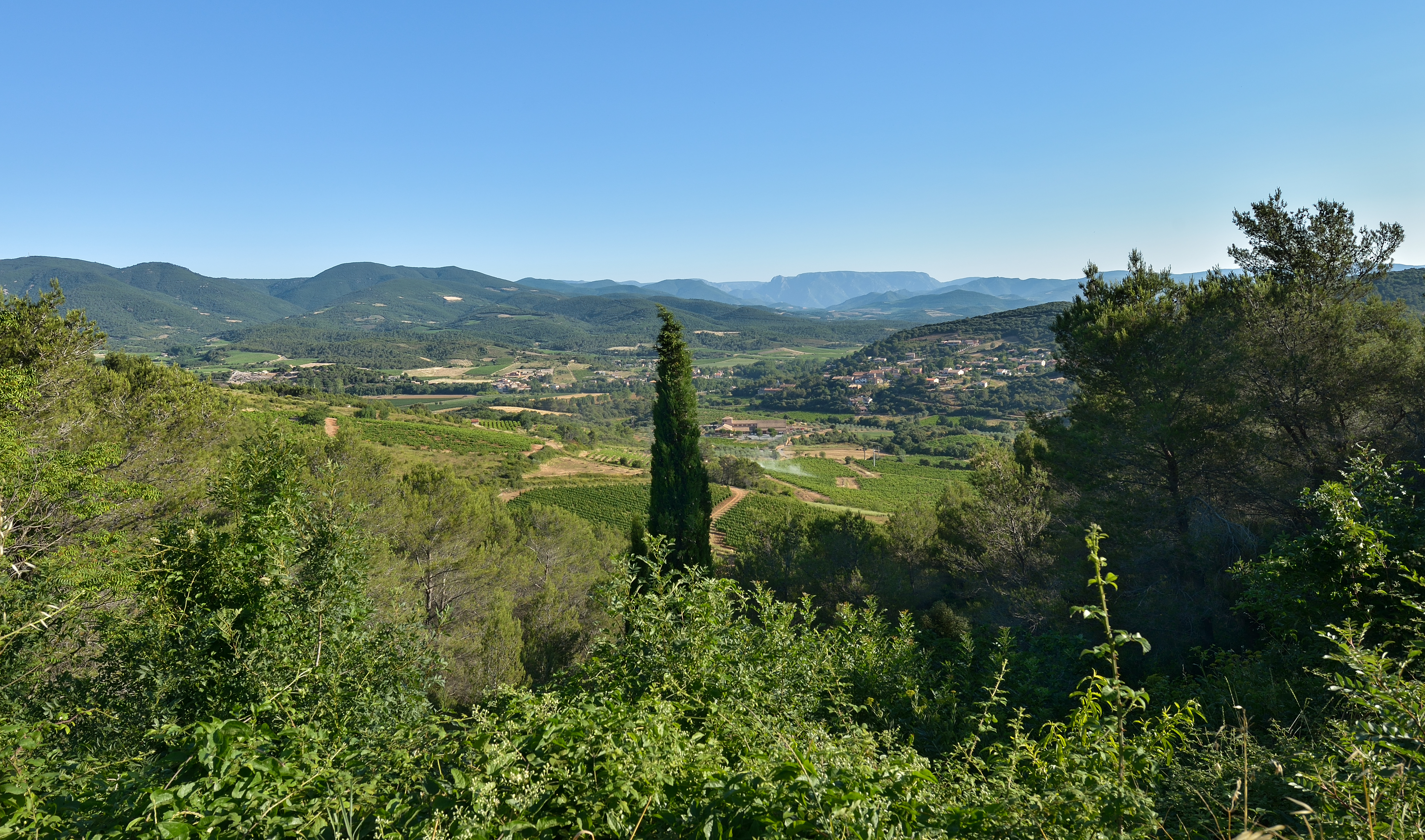 View on the Commune of Pierrerue from the D612 (Departmental Road) and in the background the Massif du Caroux. Cébazan, Hérault, France.